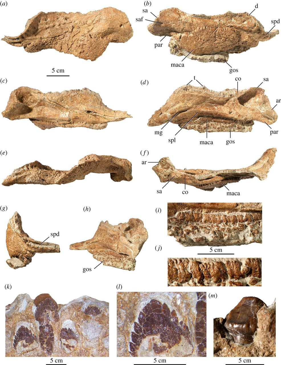 Holotype of Zuul crurivastator, ROM 75860, lower jaws and dentition. (a) Left lower jaw in lateral view, (b) right lower jaw in lateral view, (c) left lower jaw in medial view, (d) right lower jaw in medial view, (e) left lower jaw in ventral view, (f) right lower jaw in dorsal view, (g) right lower jaw in anterior view, (h) right lower jaw in posterior view, (i) ossicles preserved on the ventral side of the right lower jaw, (j) detail view of the large square ossicles abutting the medial surface of the right lower jaw, (k) in situ teeth in the right lower jaw, lingual view, anterior is to the left, (l) detail view of the most anterior tooth in (k), lingual view and (m) highly worn in situ tooth in the right lower jaw, labial view. Abbreviations are as follows: ar, articular; co, coronoid; d, dentary; gos, gular ossicles; maca, mandibular caputegulum; mg, Meckelian groove; par, prearticular; sa, surangular; saf, surangular foramen; spd, sulcus for the predentary; spl, splenial; t, tooth.